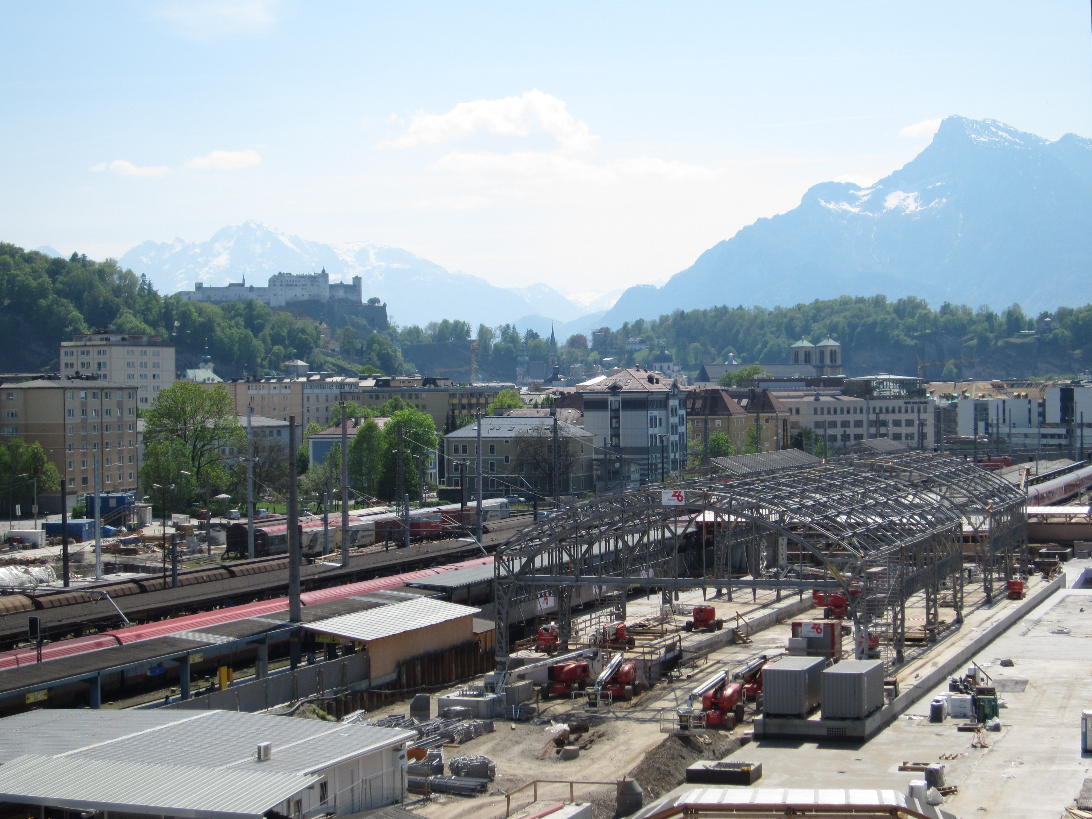 rebuilding the historical steel roof at Salzburg Main Station